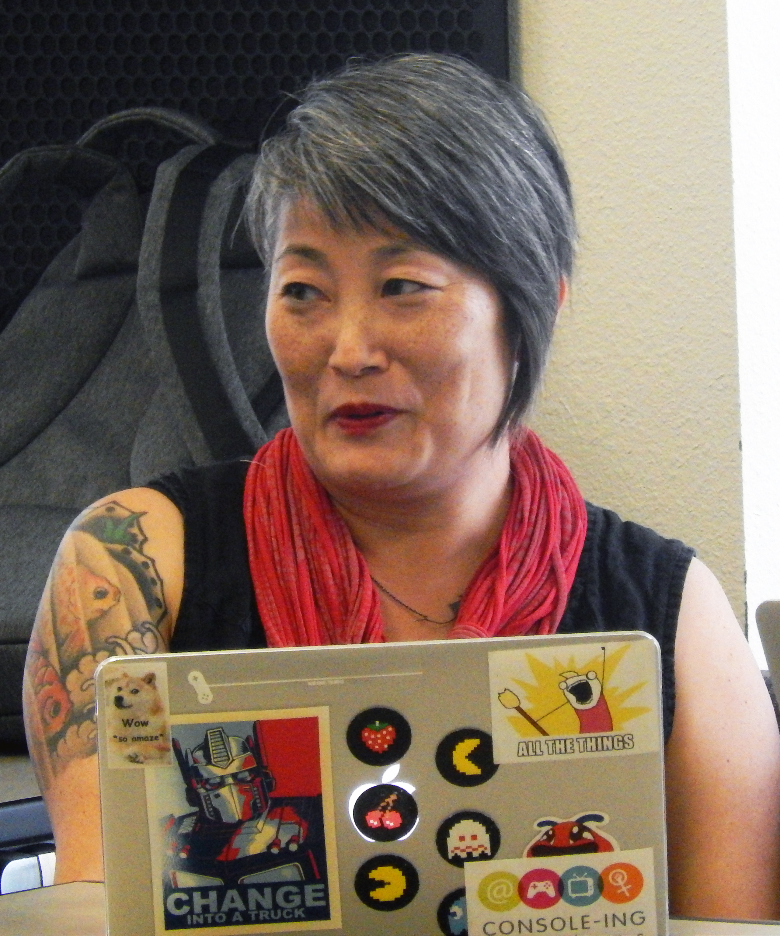 Lisa Nakamura, professor in the American cultures and screen arts and cultures departments at the University of Michigan, Ann Arbor.